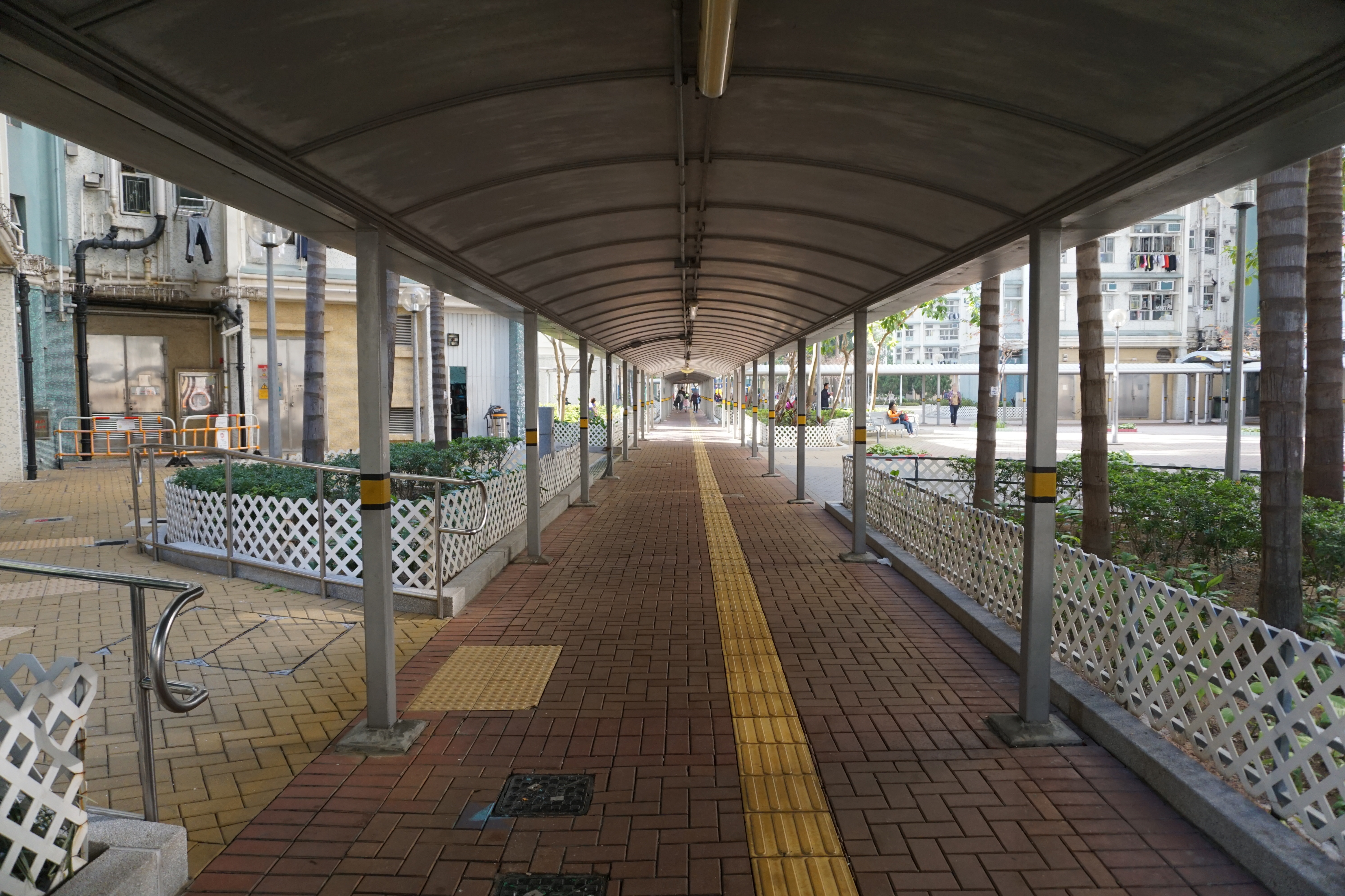 Hoi Lai Estate in Lai Chi Kok, Hong Kong.